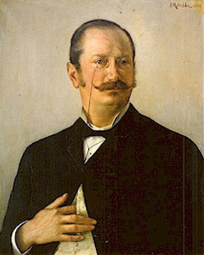 Adolfo Müller-Ury, KSG (March 29, 1862 – July 6, 1947) was a Swiss-born American portrait painter and impressionistic painter of roses and still life